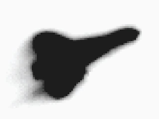 JSC2003-E-08089 (1 February 2003) --- This image is a view of the underside of Columbia during its entry from mission STS-107 on Feb. 1, 2003, as it passed by the Starfire Optical Range, Directed Energy Directorate, Air Force Research Laboratory, Kirtland Air Force Base, New Mexico. The image was taken at approximately 7:57 a.m. CST. This image was received by NASA as part of the Columbia accident investigation and is being analyzed.